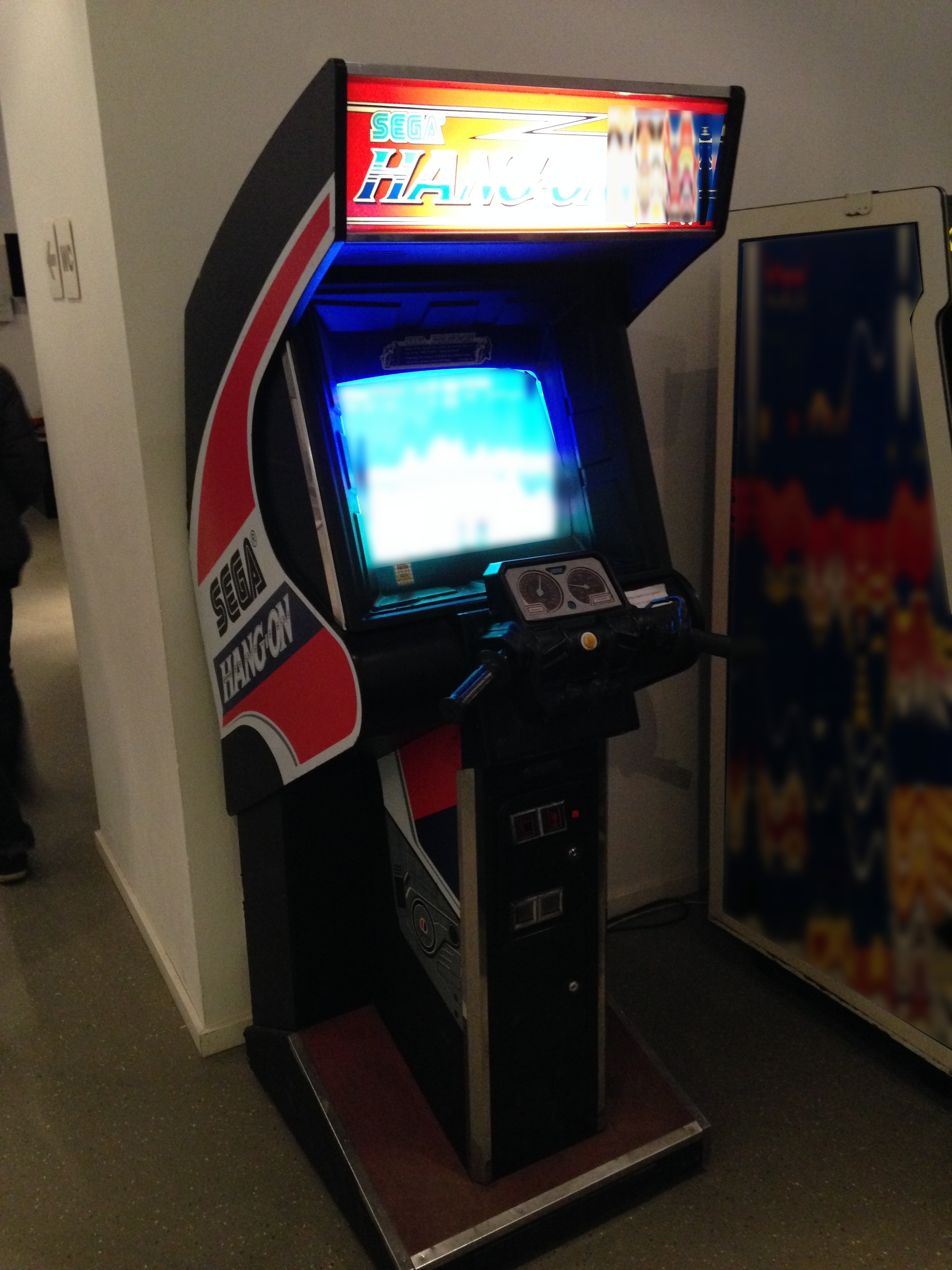 Sega Hang on Arcade Automat